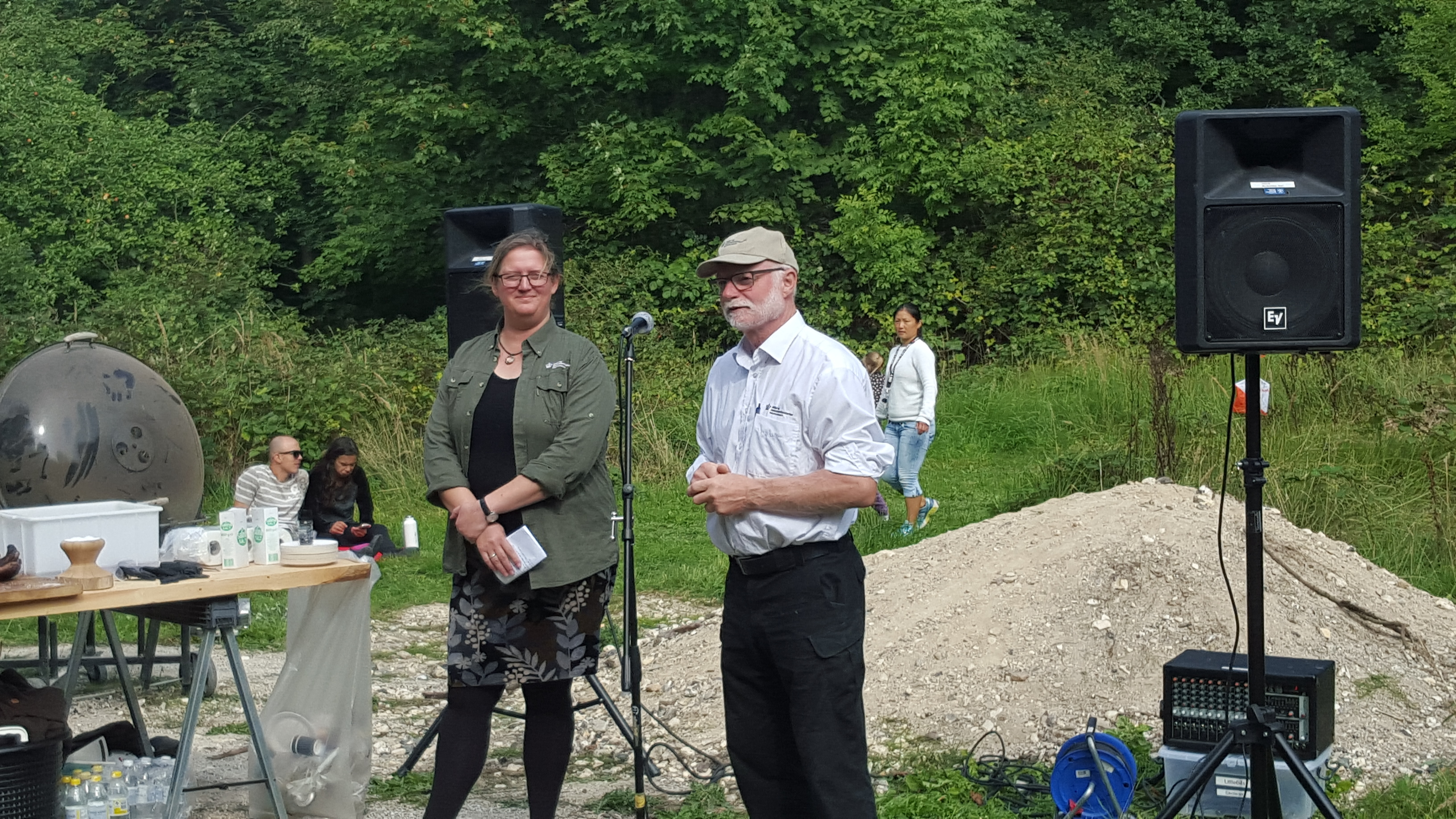 Speech at the campfire ground at Collins allé by vice-drector Signe Nepper Larsen, Naturstyrelsen and Forest superintendent Hans Henrik Christensen